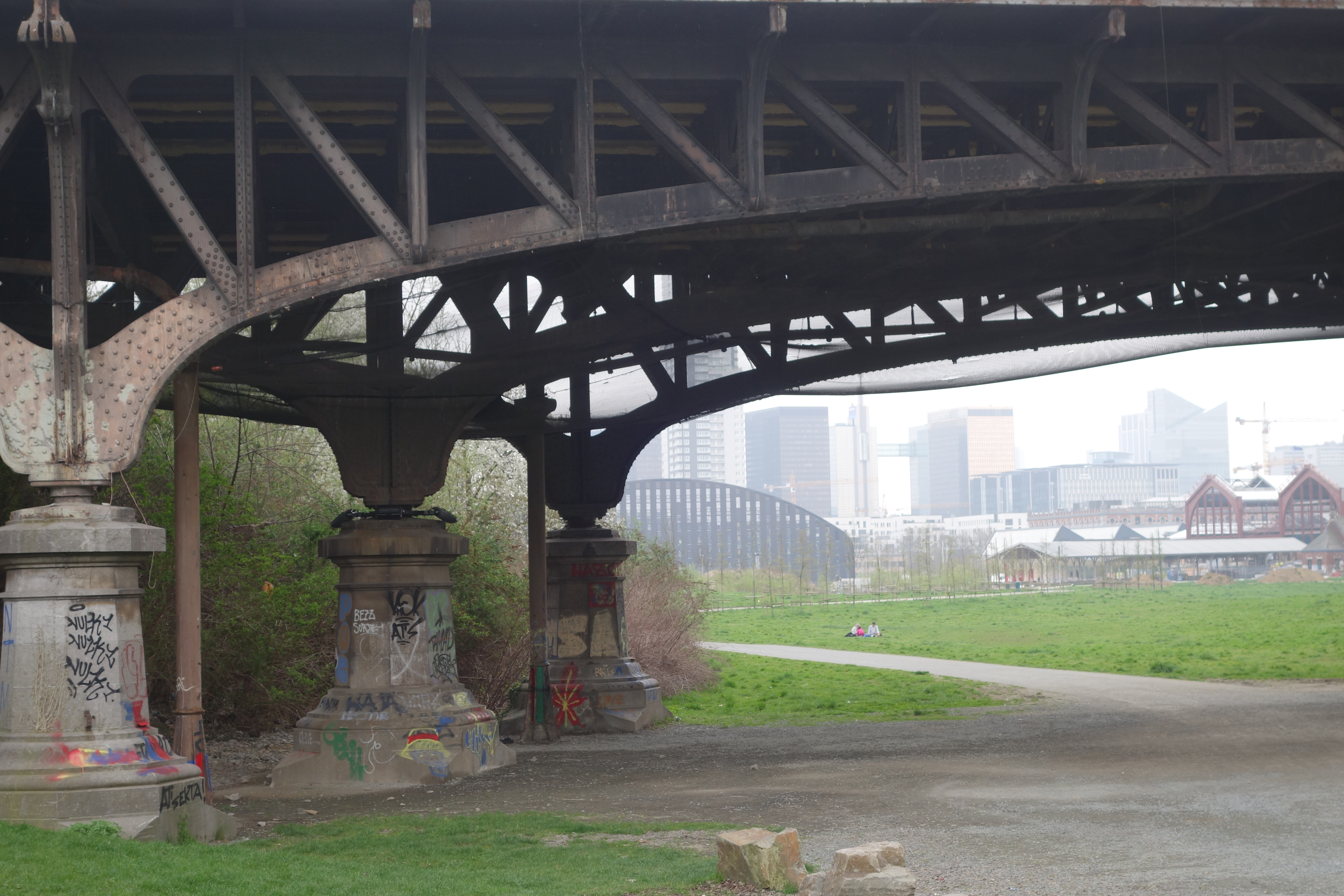 Jubelfeestbrug